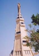 Our Lady of Mantara in Lebanon.